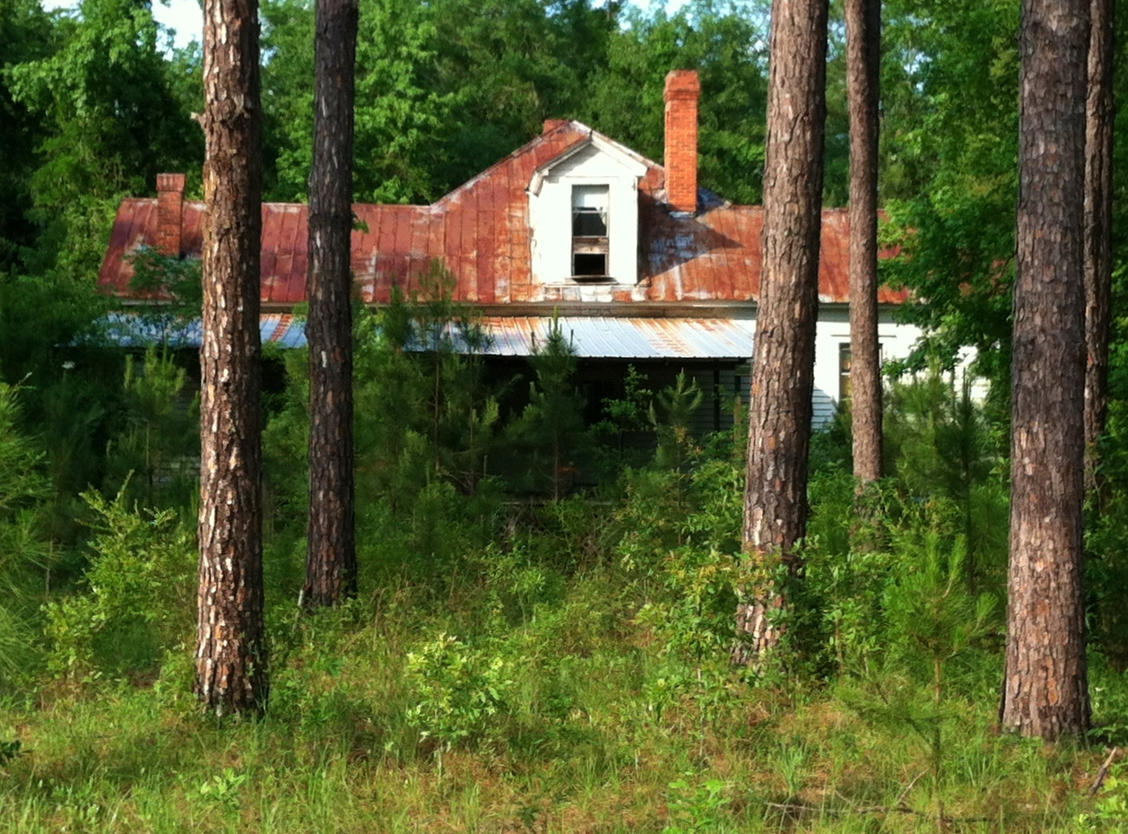 This is a photograph of Juniper, GA.